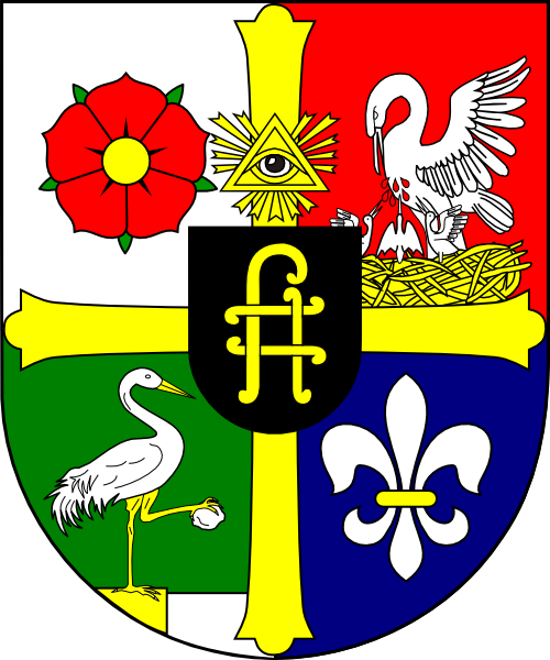 Coat of arms (shield only) of Hermann Kurz, abbot of Vyšší Brod, Czech Republic (1767 - 1795). Based on HLINOMAZ, Milan: Znaky opatů Cisterciáckého opatství Vyšší Brod, In: Heraldická ročenka 2015, p. 170.